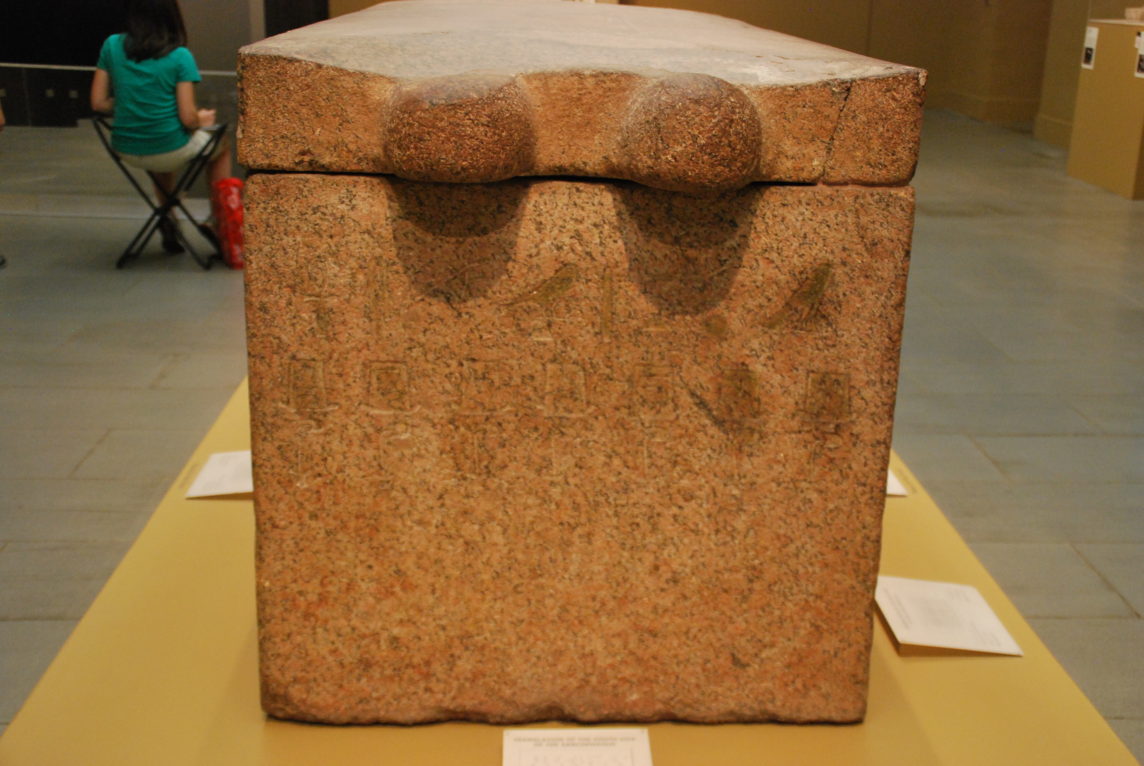 Sarcophagus of Meresankh II, a daughter of the pharaoh Khufu, from Giza, tomb G 7410B. Made of red granite, from the 4th dynasty, circa 2606-2550 B.C. Now residing in the Museum of Fine Arts, Boston. Meresankh II was buried in a royal mastaba field east of the Great pyramid and is to be distinguished from Meresankh III, her niece.